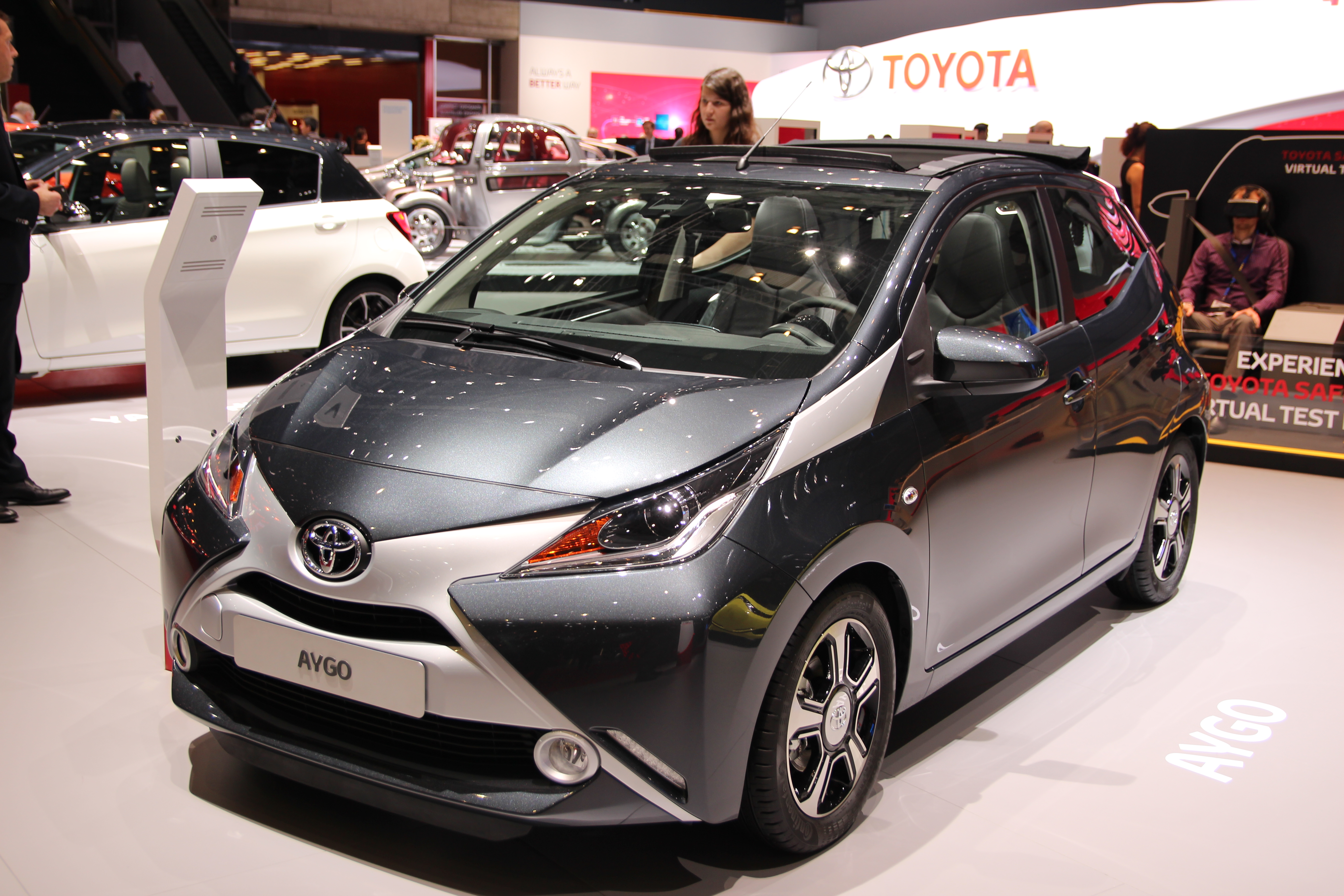 Toyota AYGO na targach w Genewie 2016